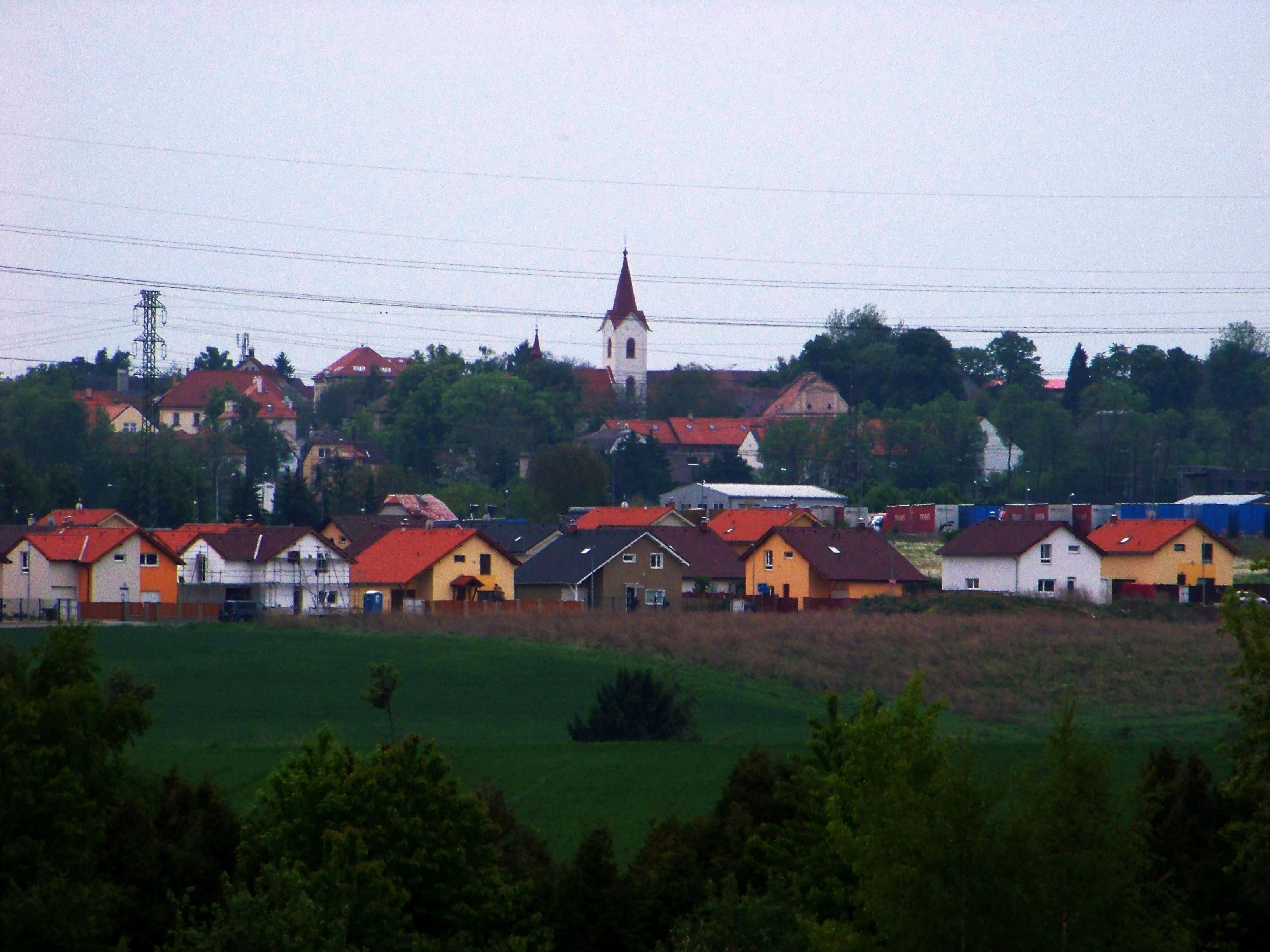 Prague-Řeporyje and Ořech (Prague-West District), the Czech Republic.